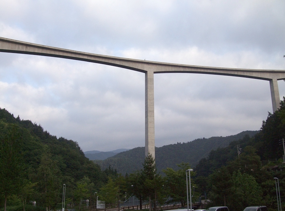 TOKAI-HOKURIKU EXPWY.Washimi Brigde